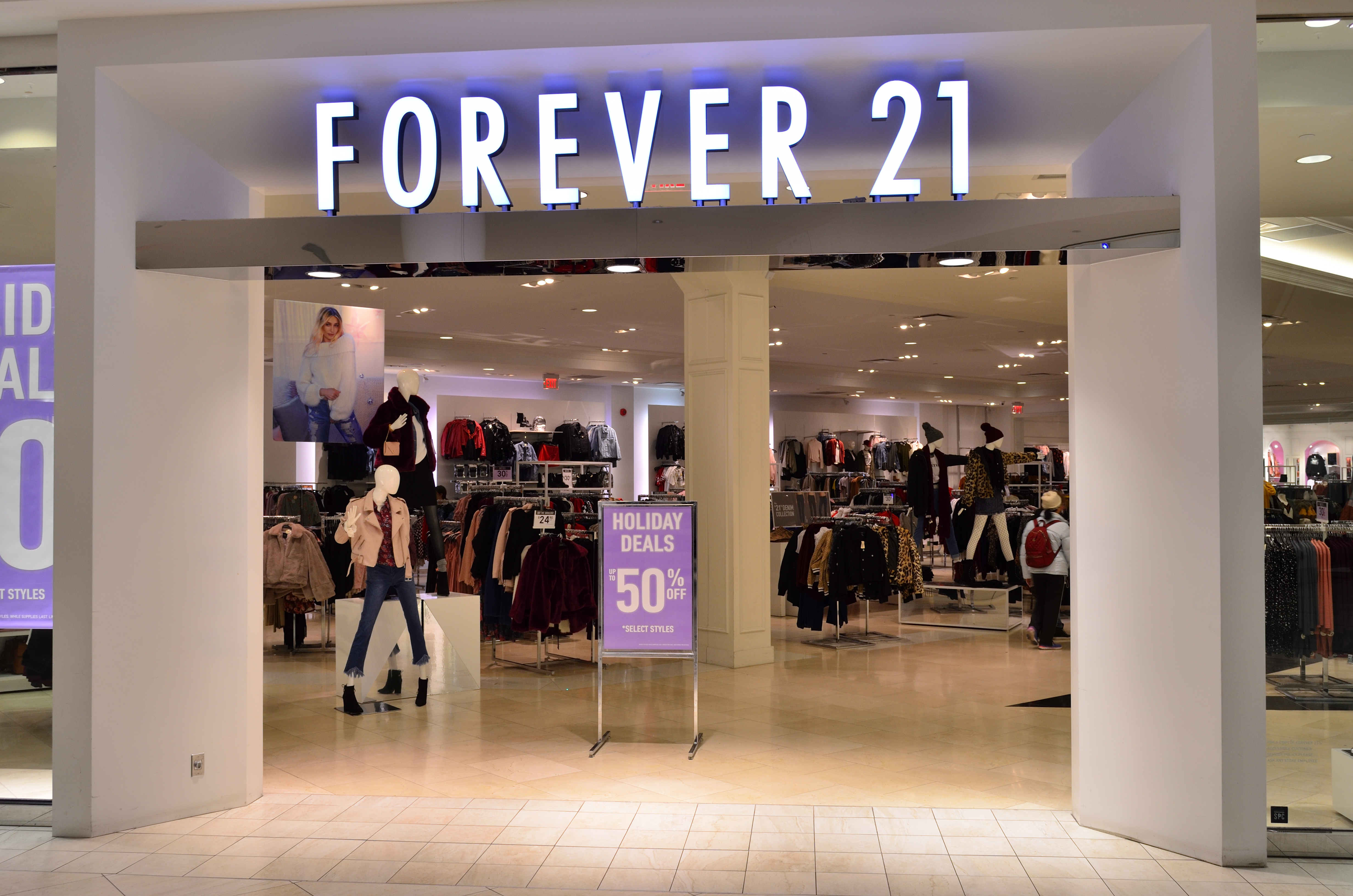 Forever21 at Markville Mall.